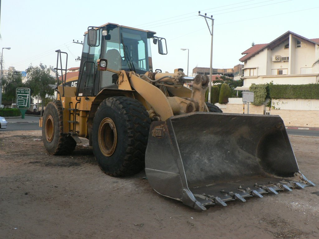 Caterpillar 950G front loader